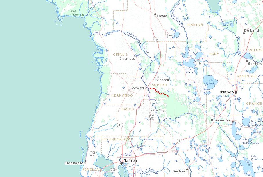 Course of theLittle Withlacoochee River; by USGS